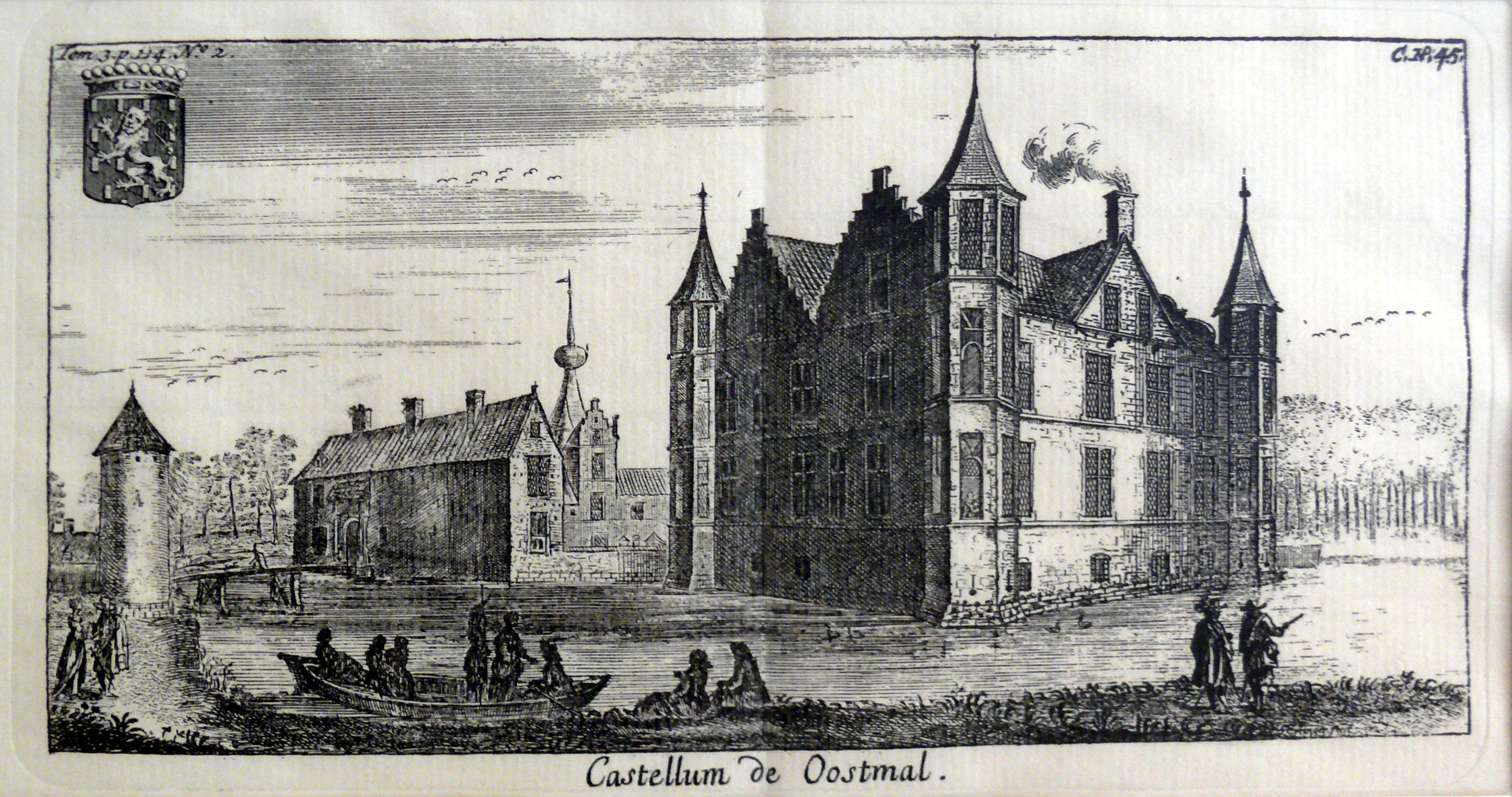 Engraving of the Oostmalle castle (1670). The castle was the property of the Renesse family.